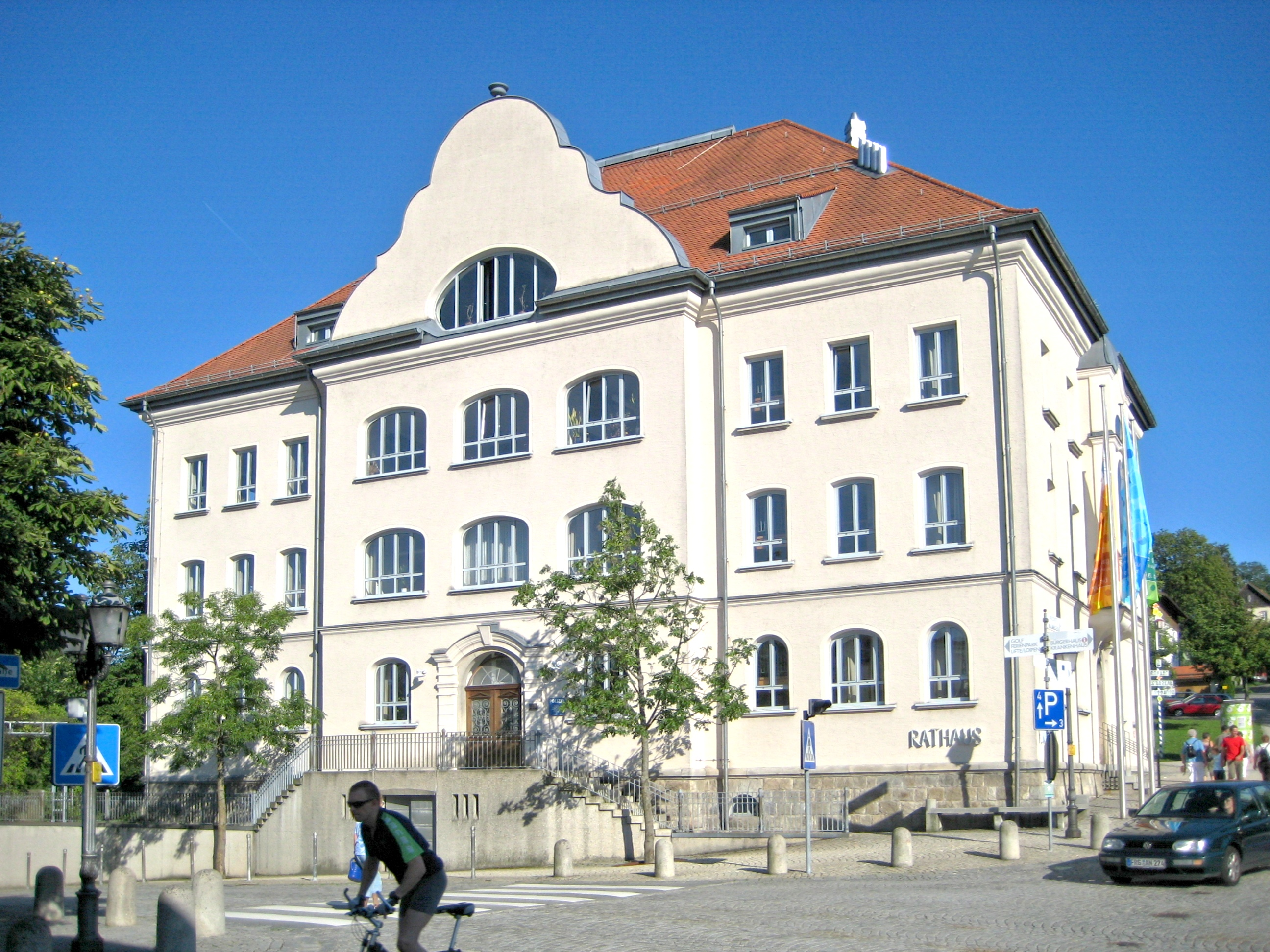 Town hall of Waldkirchen